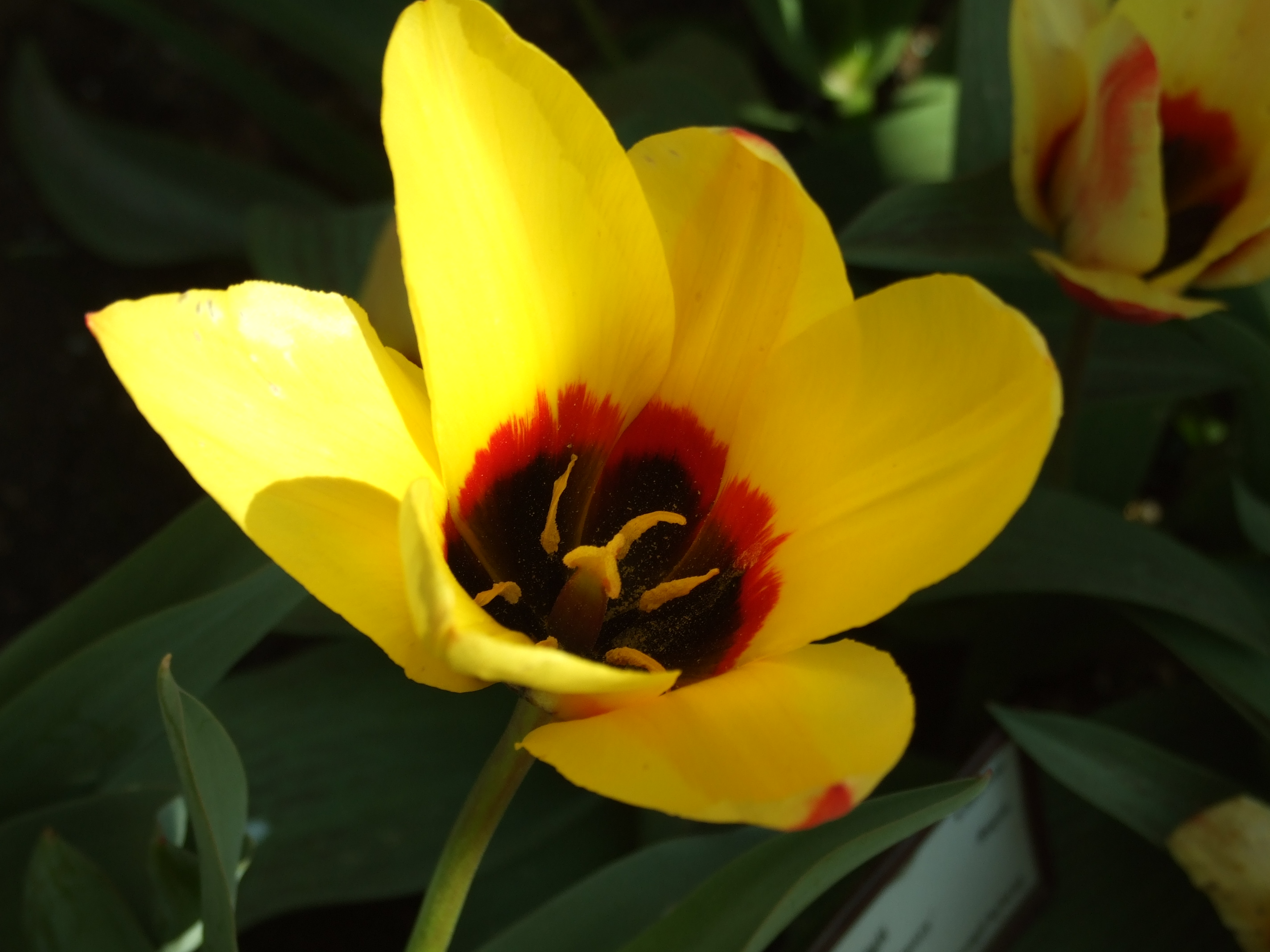 Tulipa greigii in Prague botanic garden, CZ